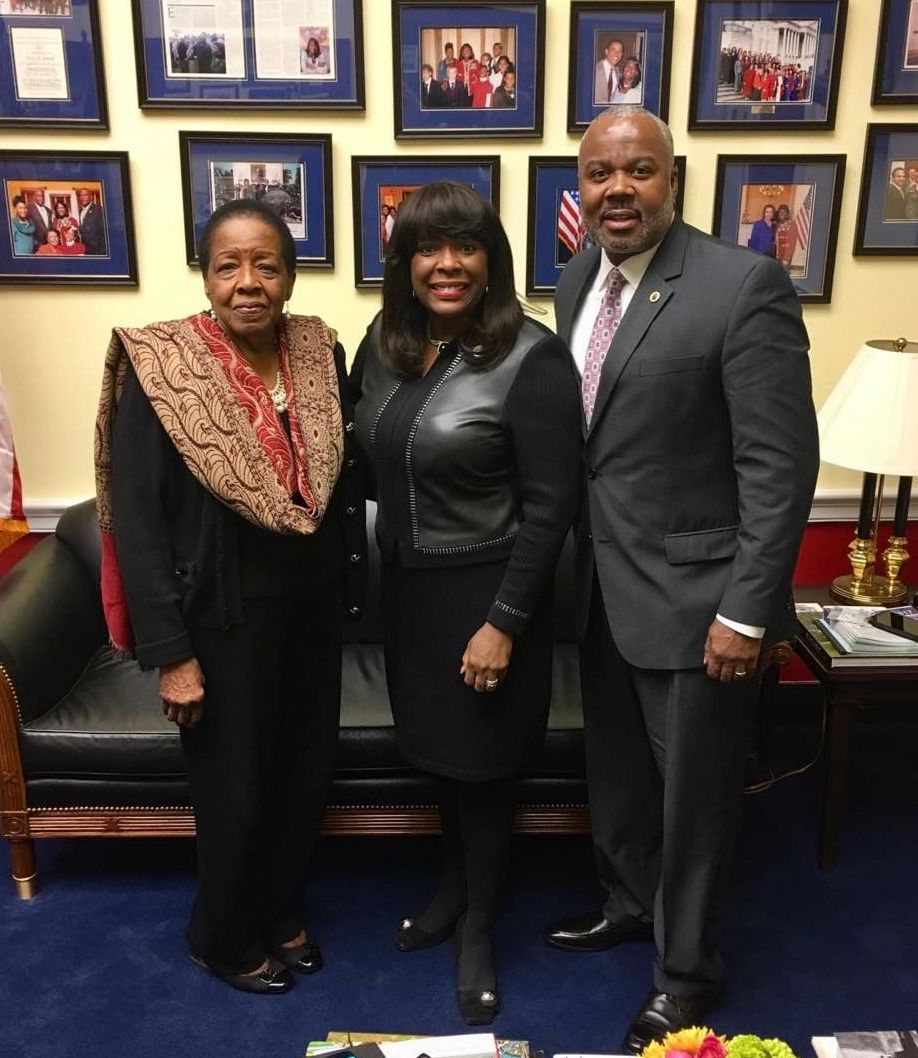 Excited to welcome ASU President Quinton Ross and State Rep. Laura Hall to the NEA HBCU Summit!